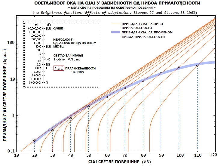 ОСЕТЉИВОСТ ОКА ЗА МАЛУ СВЕТЛУ ПОВРШИНУ